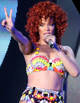 Rihanna Live at Target Center on her LOUD Tour.